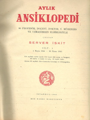 İlk Ansiklopedi, 3 Volumed Turkish encyclopaedia from 1944-45